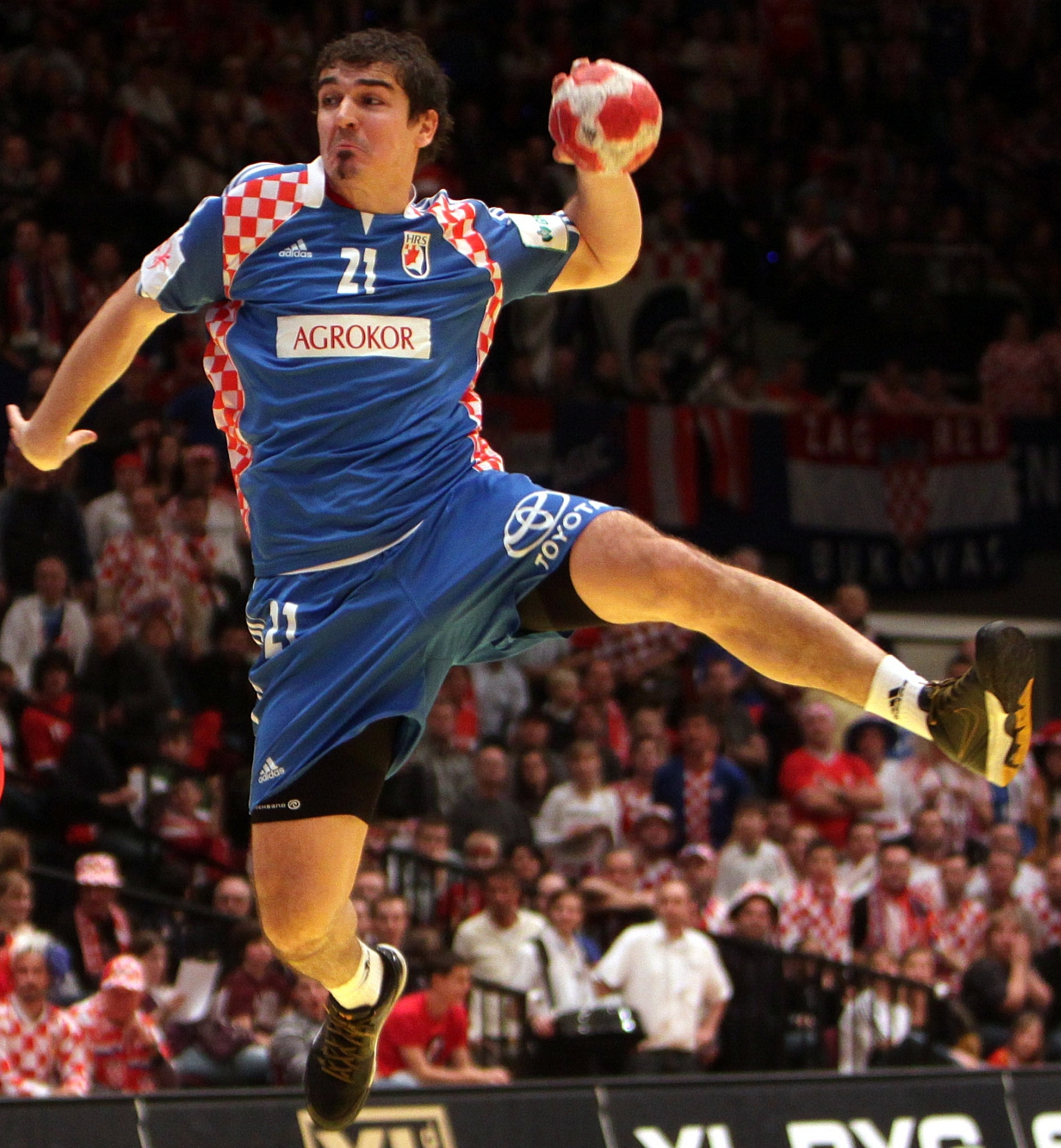 Croatian handball player Denis Buntić